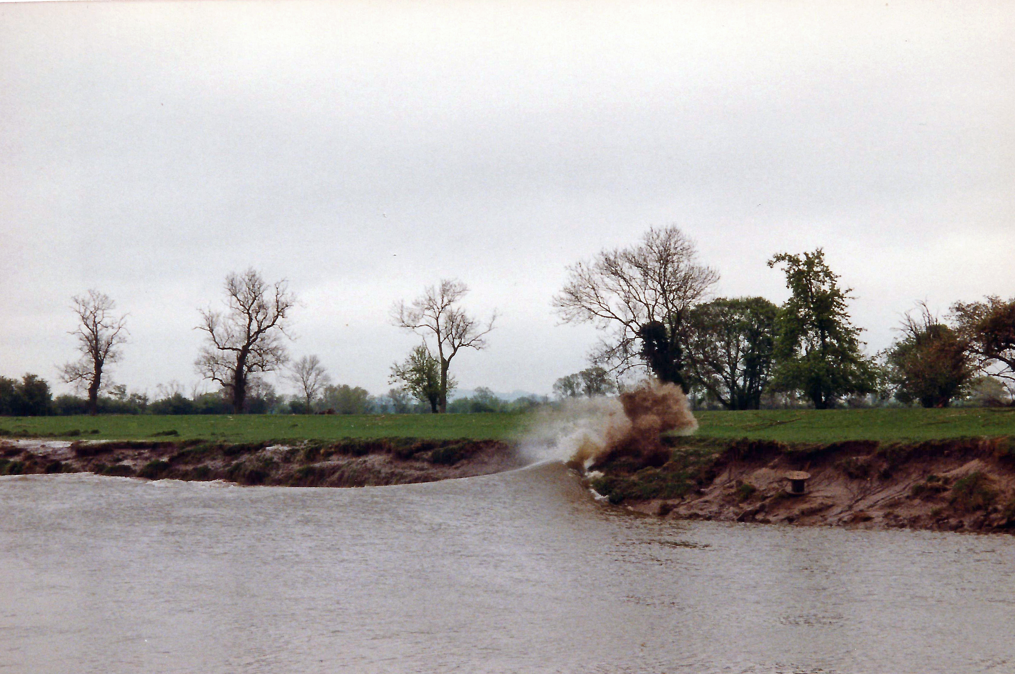 Severn Bore hitting a bank